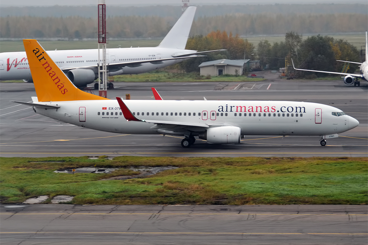 Air Manas Boeing 737 at Domodedovo International Airport